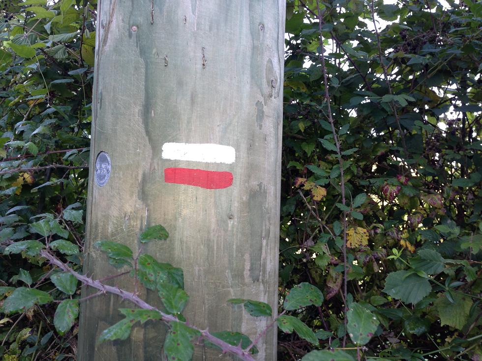 Typical waymarking indicating the path of the GR 65 in France.